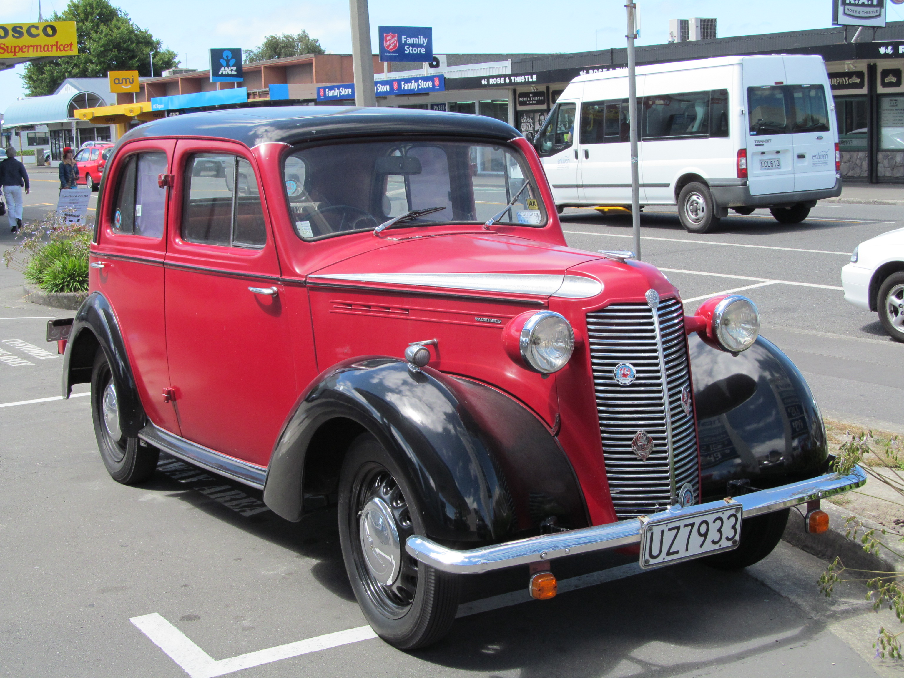 From a distance I thought this was an Austin 8, until I walked up to it and saw the Vauxhall badge. For some reason all these small 40s cars seemed to look very similar.